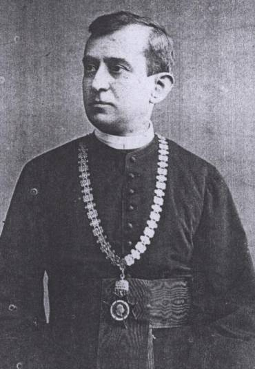 A photograph of Gustav Baron.